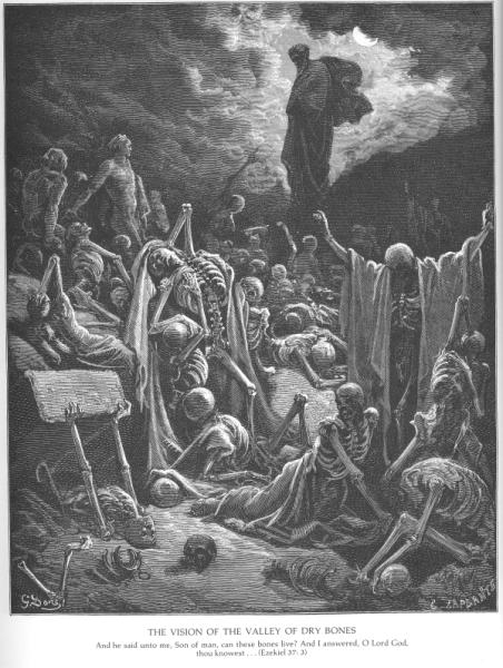 Ezekiel’s Vision of the Valley of Dry Bones